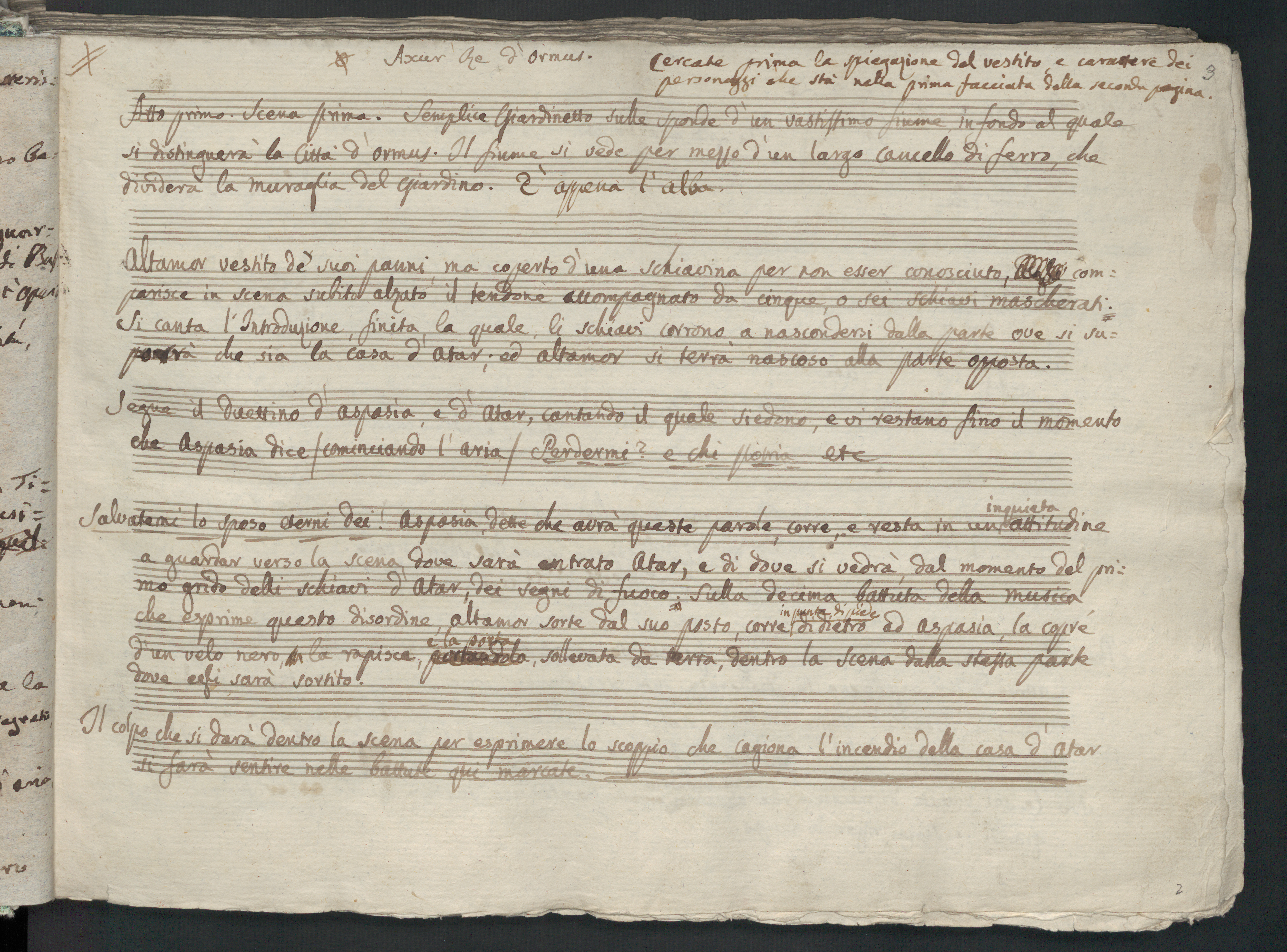 A page of the autograph of Antonio Salieri's opera "Axur Re d'Ormus": showing the description of the first act.